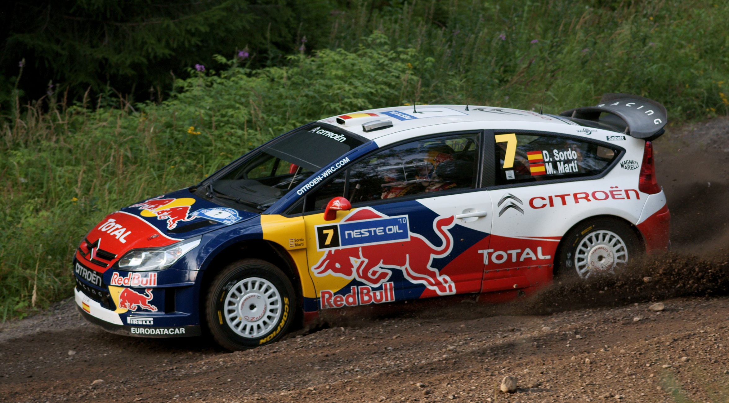 Dani Sordo driving at Laajavuori special stage, Rally Finland 2010.